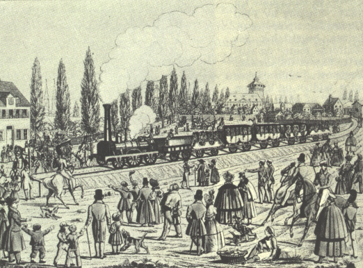 First railway in Germany, between Nürnberg and Fürth. From the opening day, December 7th 1835Contemporary lithography